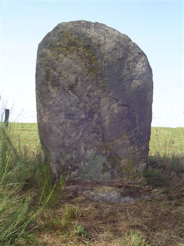 Although hard to recognize, engravings of the belt on its back and dagger-like ornament of its front still remain.[1]